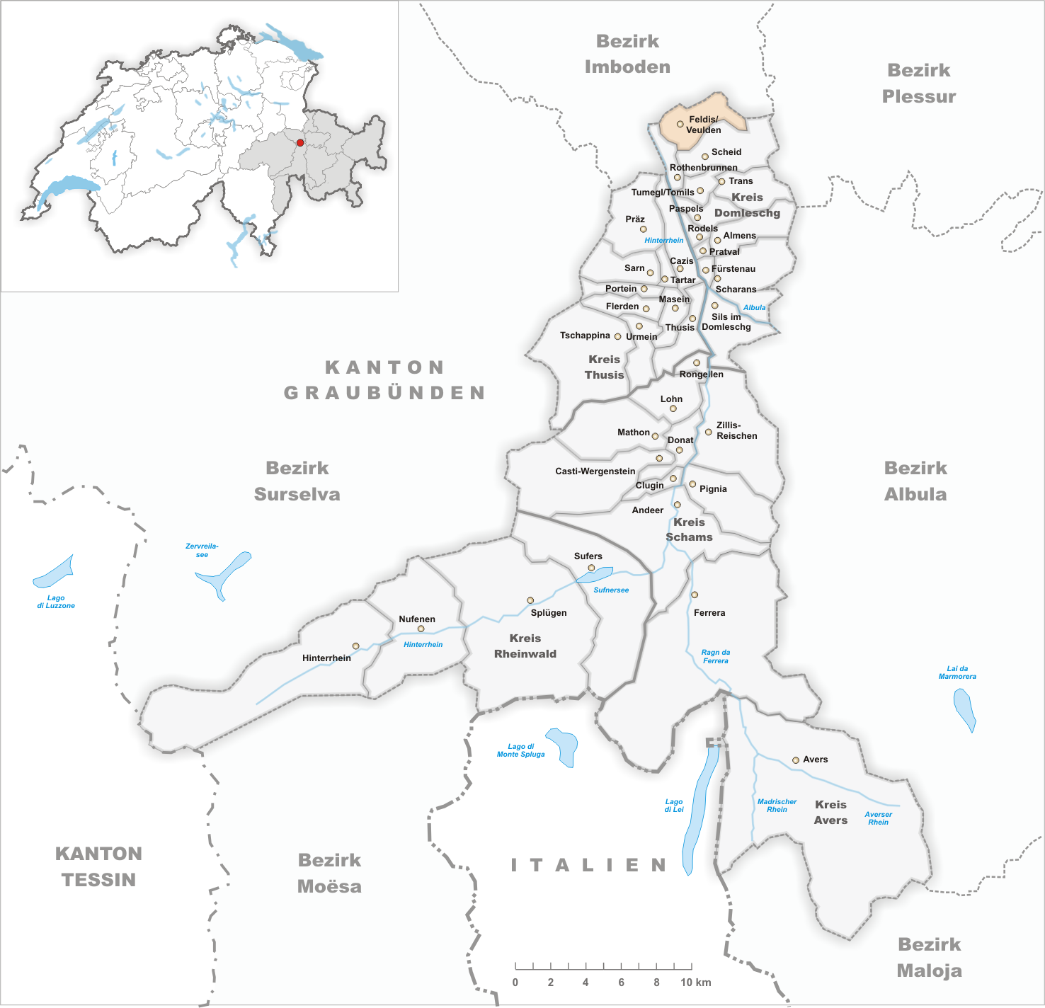 Municipality Feldis/Veulden